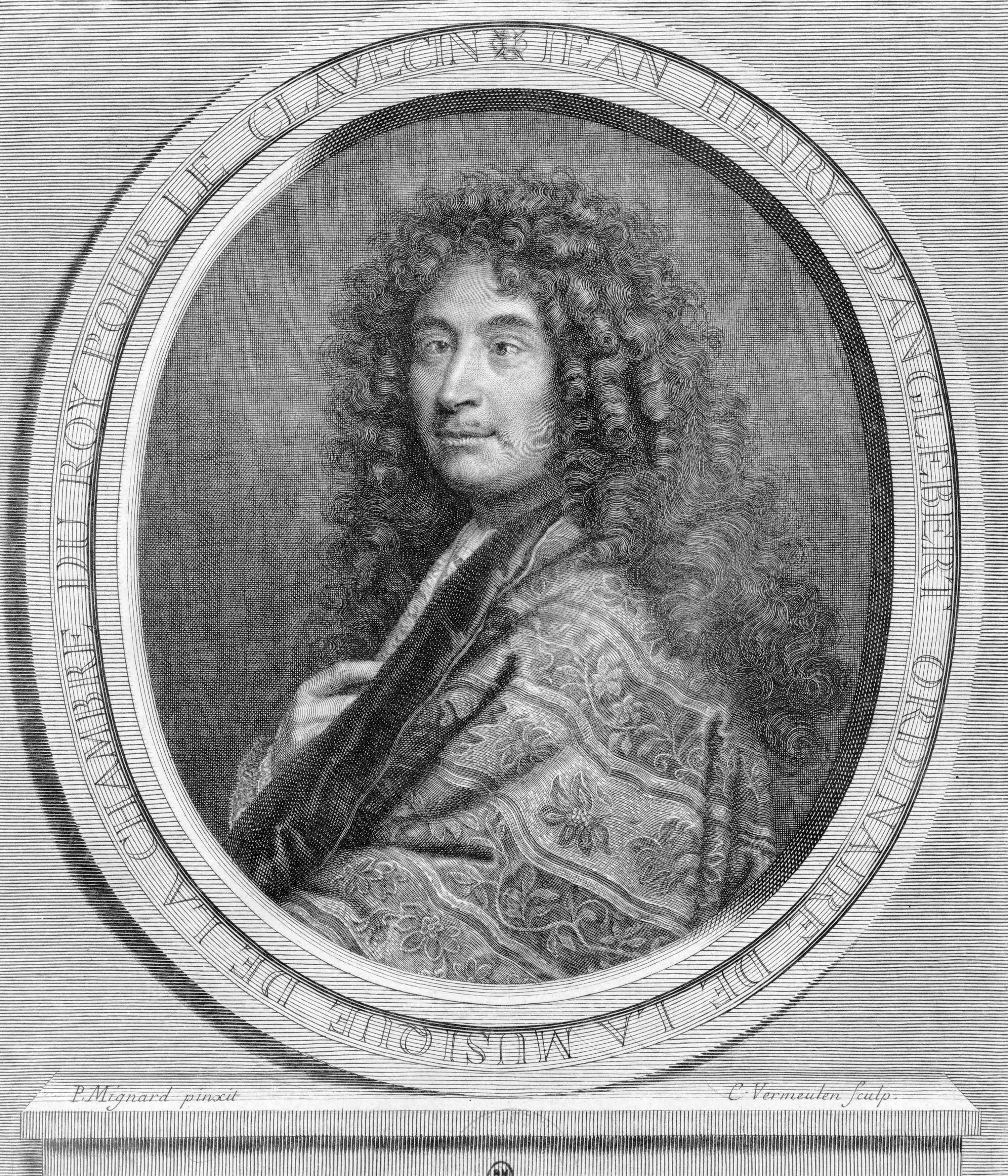 Depicted person: Jean-Henri d'Anglebert